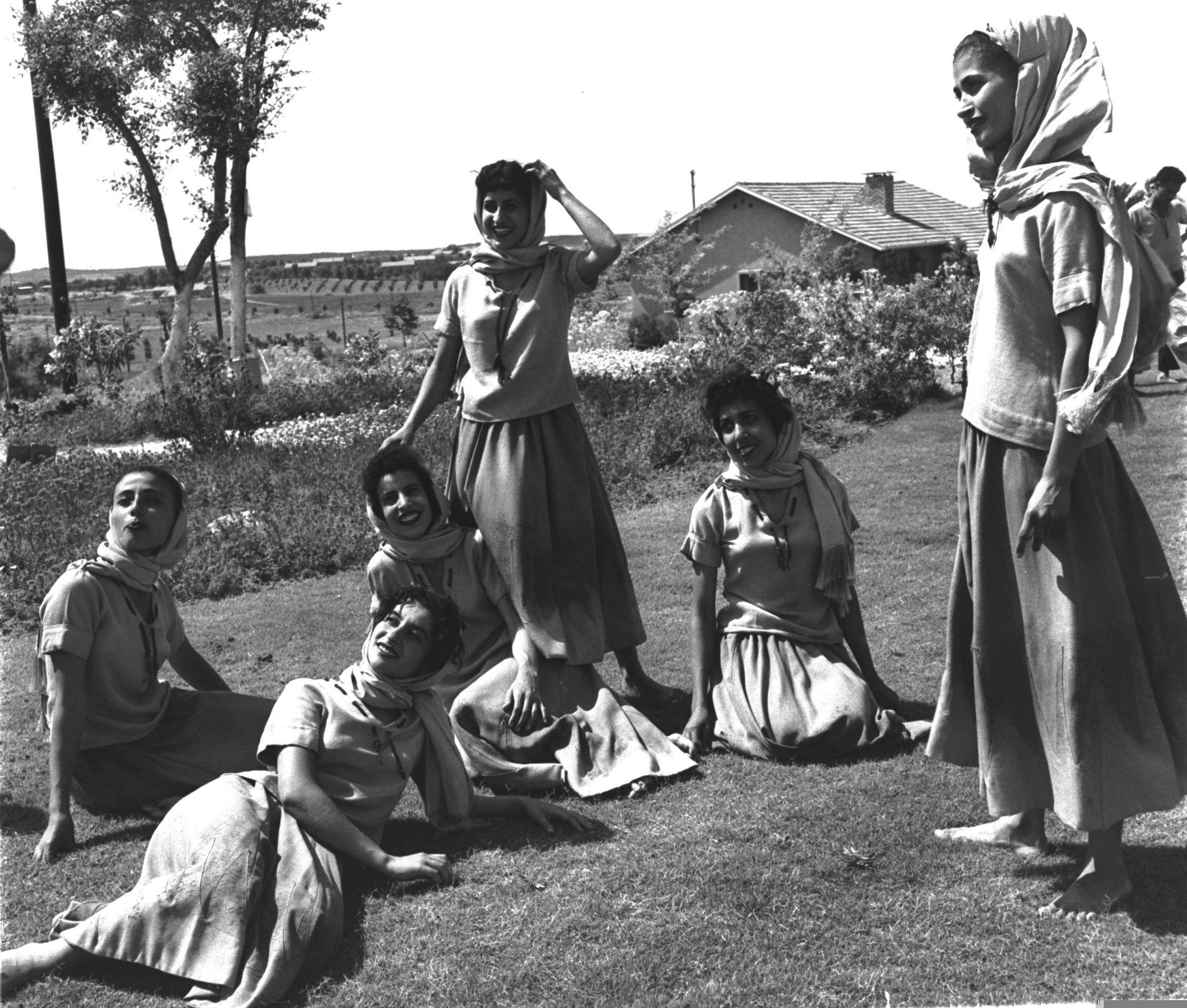 Members of the Yemenite "Inbal" dance troupe.